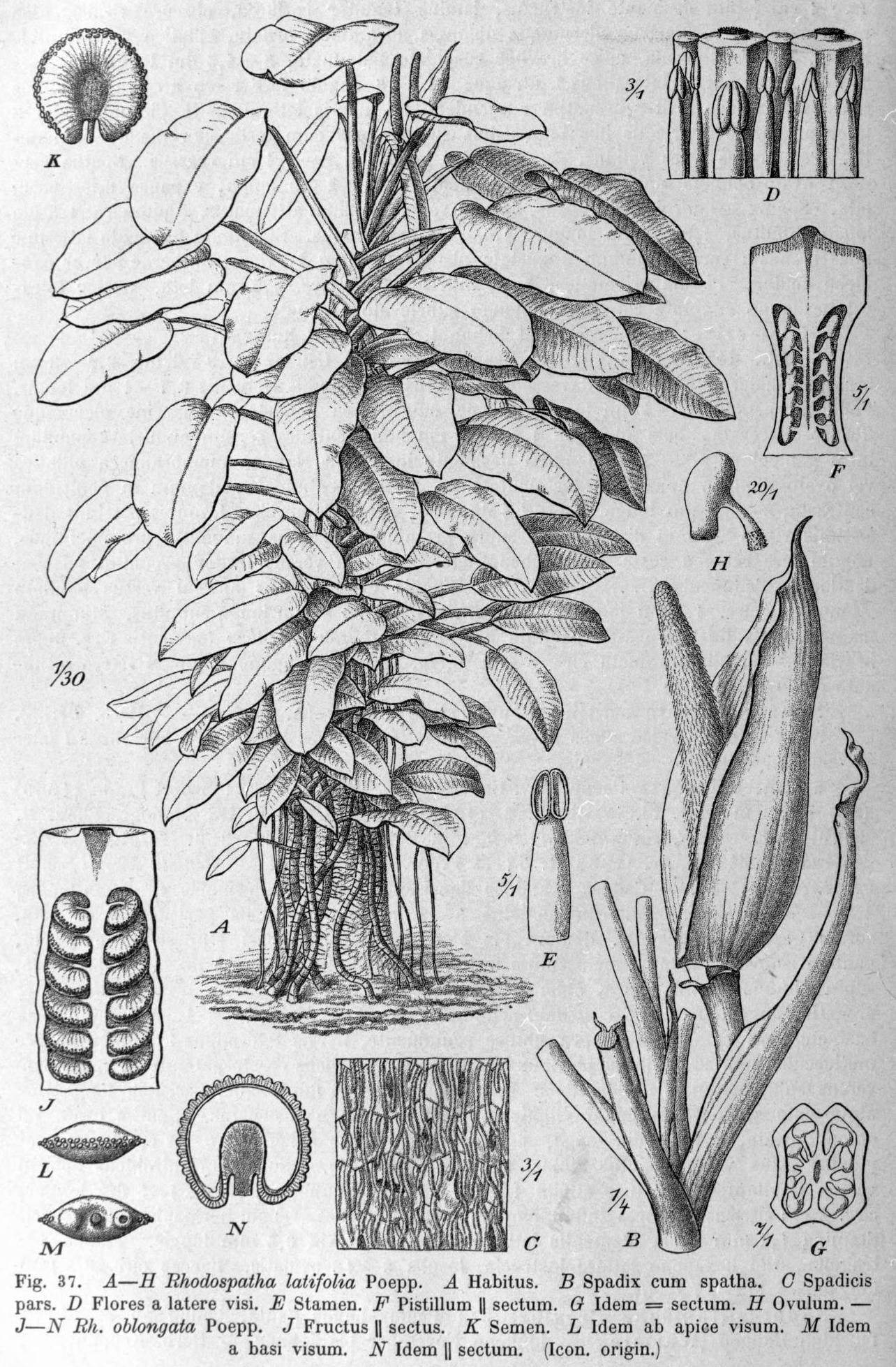 Rhodospatha latifolia